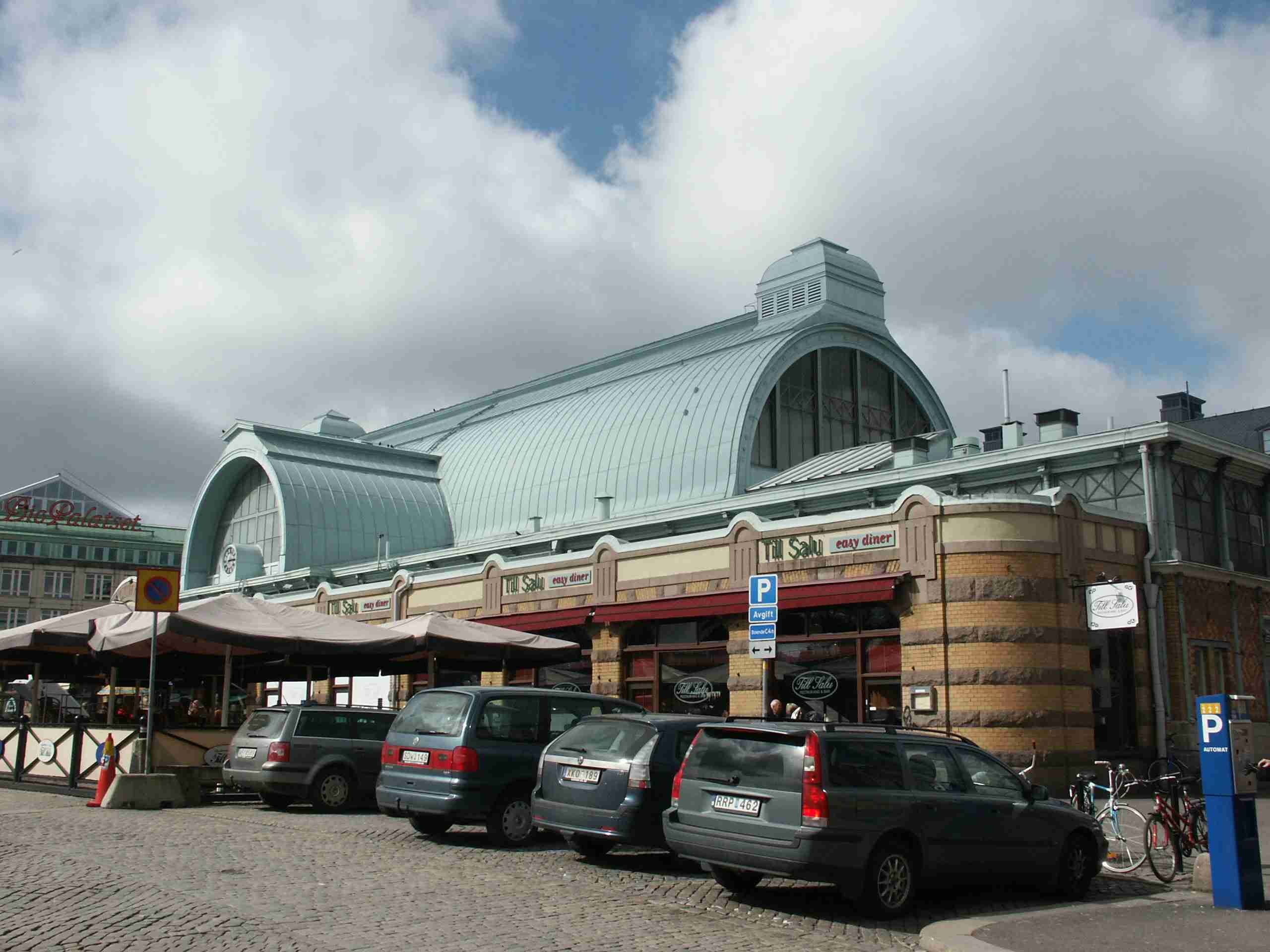 Photographer: Erik of Gothenburg, EVL. Saluhallen, a coverd market hall in Gothenburg.